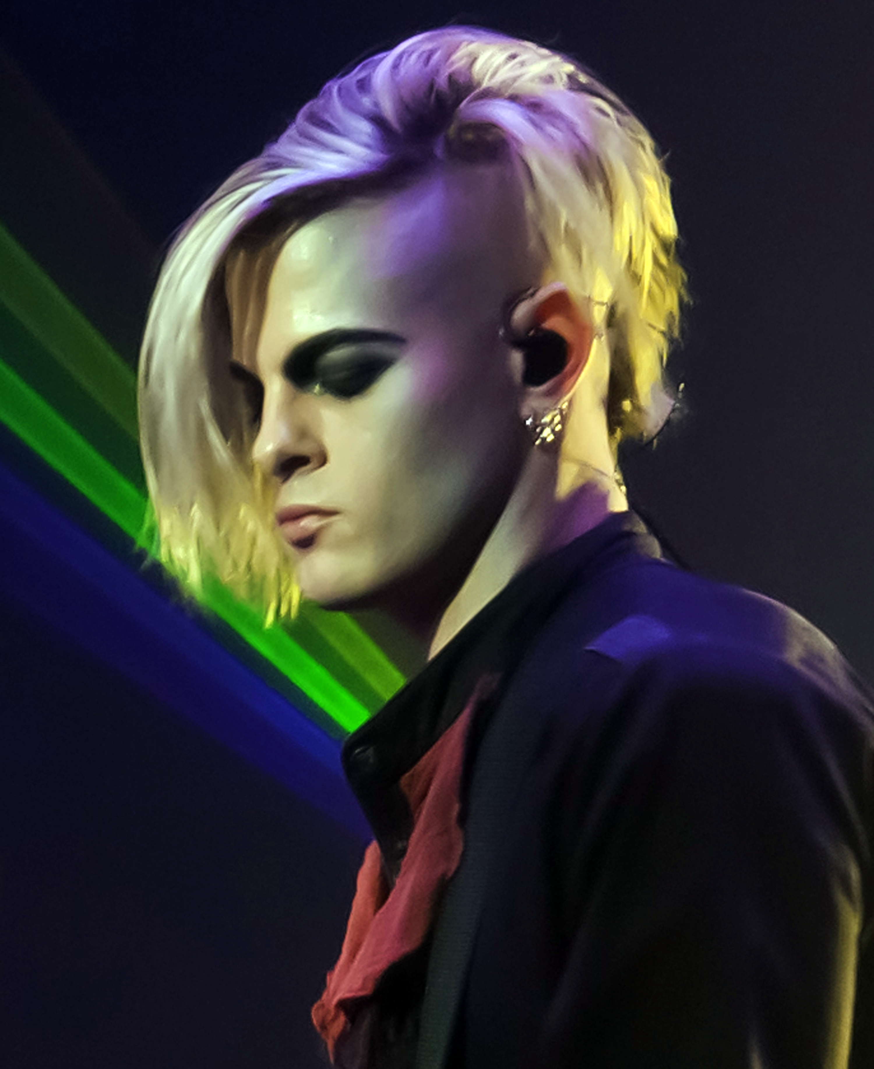 TommyJoe Ratliff, Adam Lambert's bass player, performs on the Glam Nation Tour in Honolulu, Hawaii, October 2010.